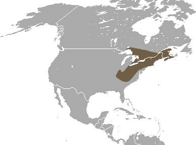 Smoky Shrew (Sorex fumeus) range